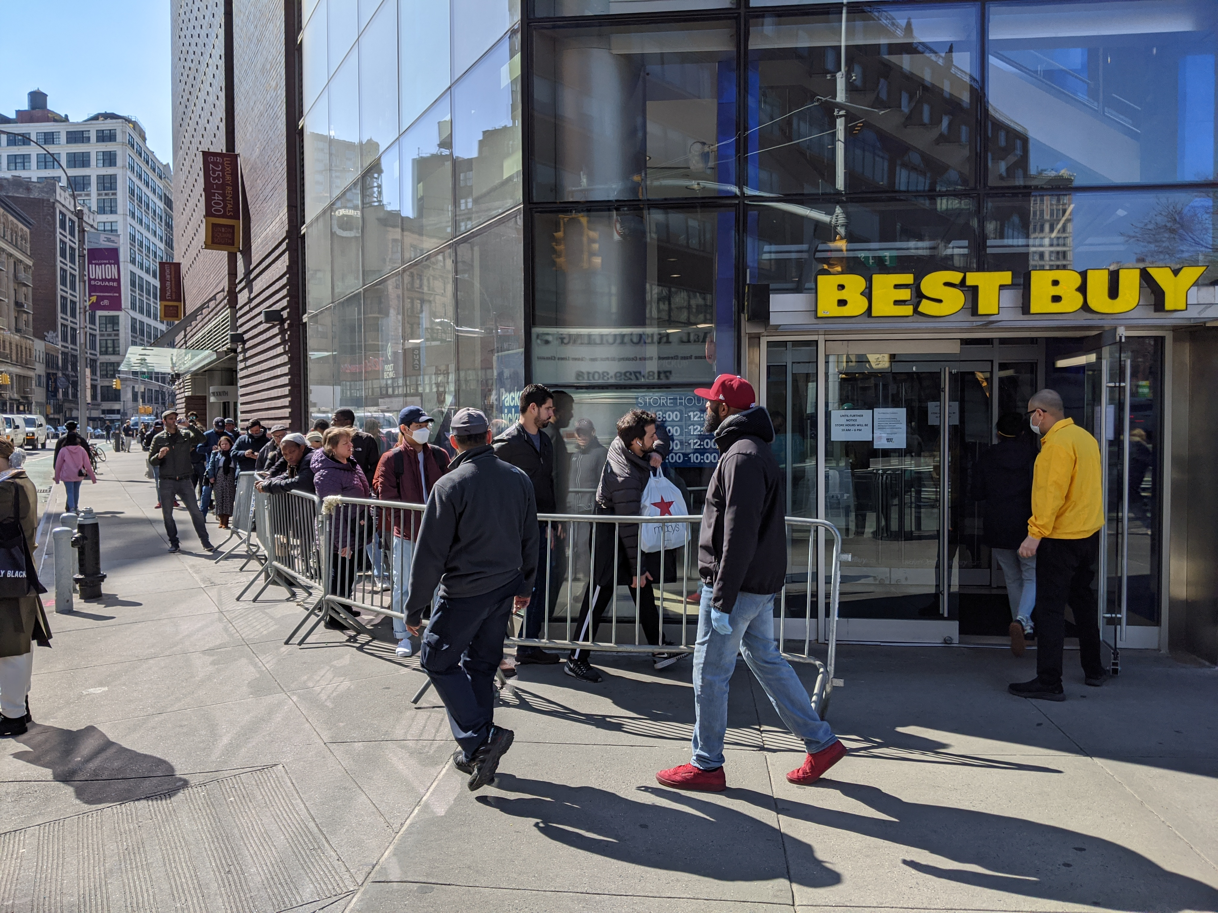 In light of the coronavirus epidemic, Best Buy was only letting a limited number of people into their Union Square store--but created a line for people waiting to get in to pack themselves into.